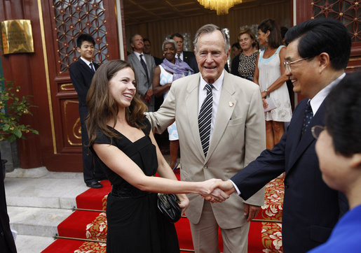 Former President George H. W. Bush introduces his granddaughter, Ms. Barbara Bush, to China's President Hu Jintao Sunday, Aug. 10, 2008, folllowing their visit to Zhongnanhai, the Chinese leaders compound in Beijing.